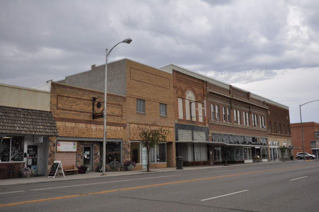 Merrill Avenue Historic District in Glendive, Montana.